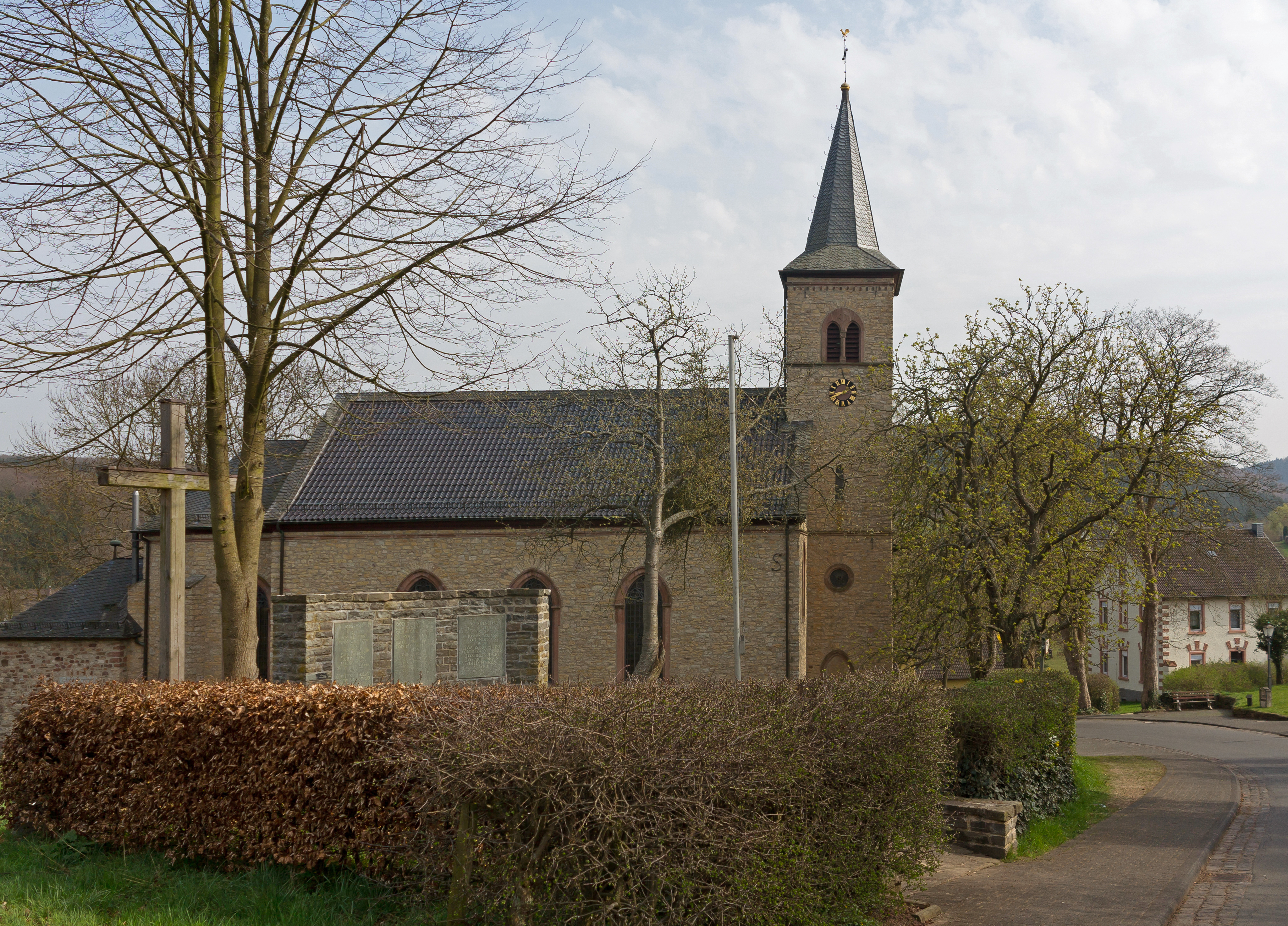 Pesch , church: Kirche Sankt CaeciliaThis is a photograph of an architectural monument., no. 154